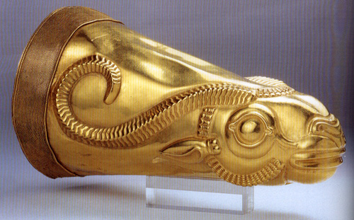 Gold rhyton, from Ecbatana.